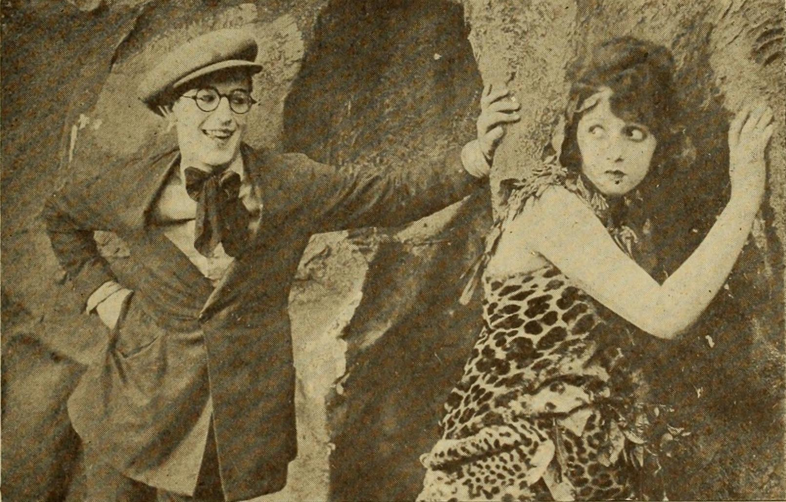 Still from the American comedy short film Just Dropped In (1919) with Harold Lloyd, on page 253 of the April 12, 1919 Moving Picture World.